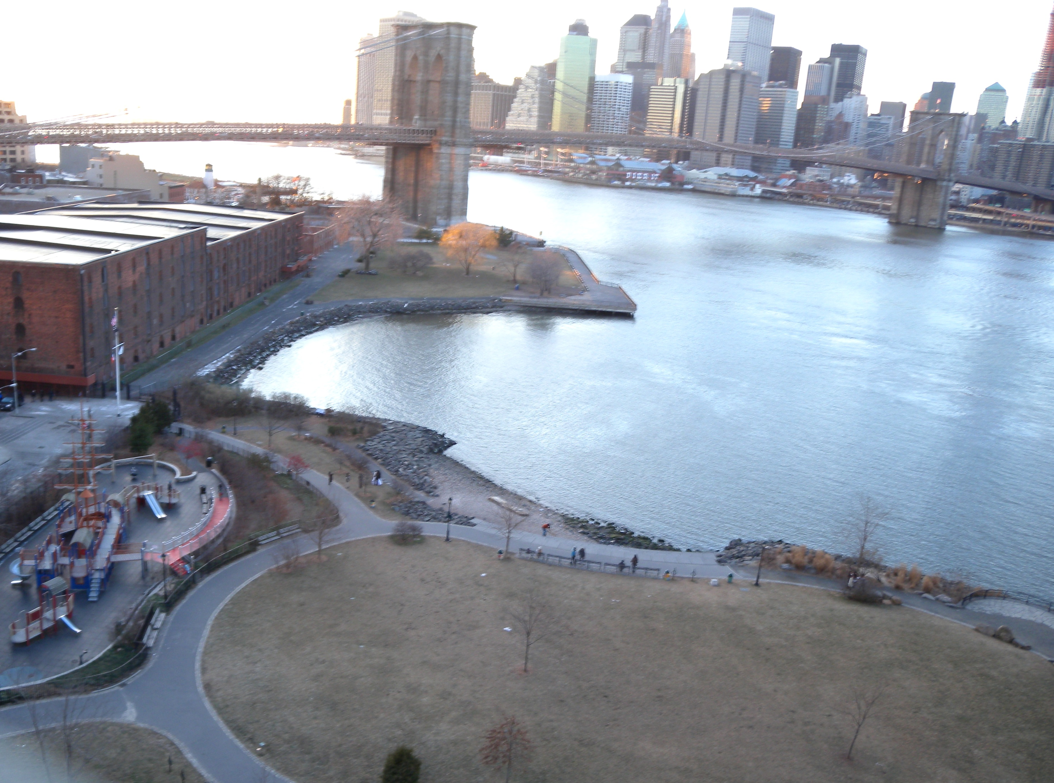 Looking west and down from Manhattan Bridge at Empire–Fulton Ferry State Park and Empire Stores on a sunny late afternoon as a bride and groom pose for wedding pictures by the water.